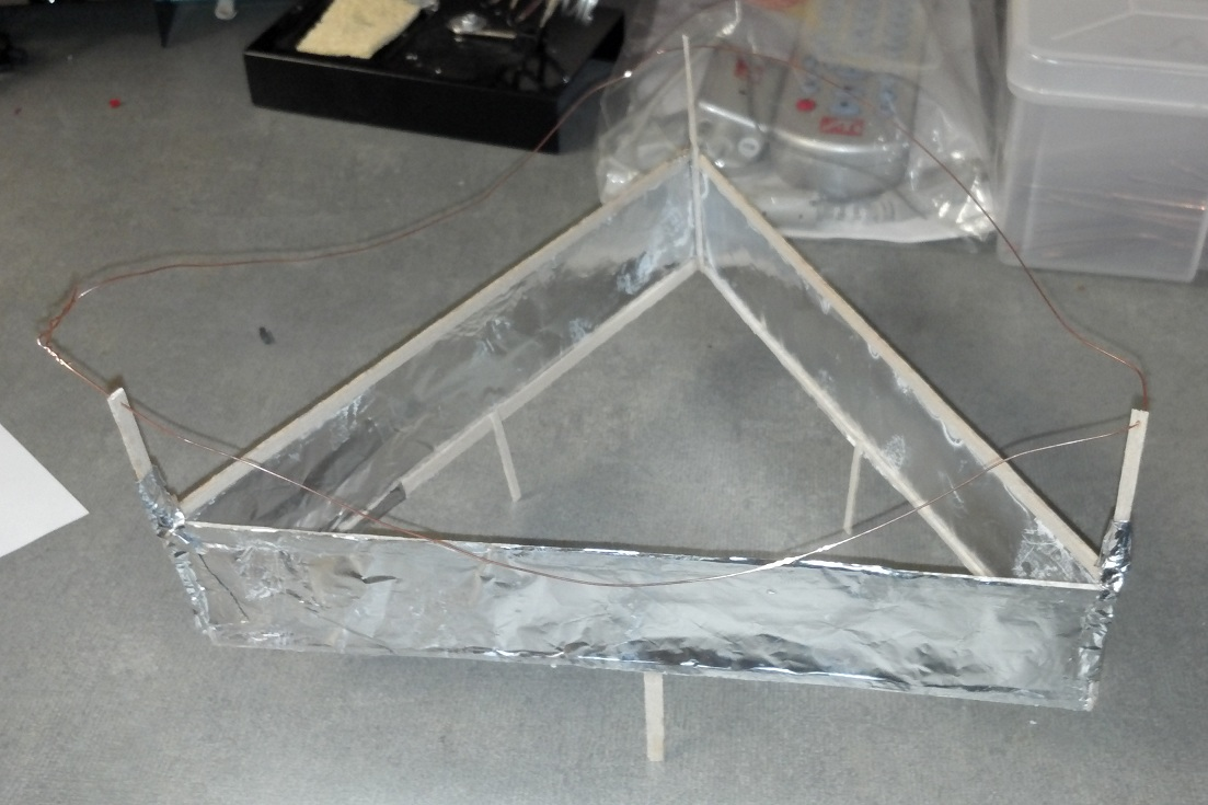 A "Lifter" built for Howard CC's Engineering program